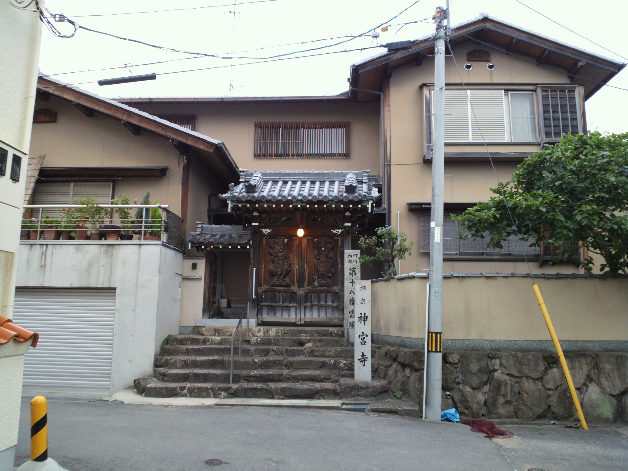 Jingu-ji, Hattorigawa9-140, Yao, Osaka, Japan